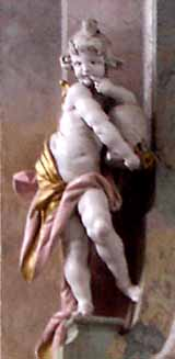 "Honigschlecker" (honey eater) putto in Birnau pilgrimage church, Germany. The putto refers to St. Bernard of Clairvaux who was called doctor mellifluus ("the teacher with words like honey") for his eloquence in preaching. The stucco statue which was created by J.A. Feuchtmayer around 1750 ist one of, if not the, best known and an excellent example of his famous technique to give his stuccos an alabaster-like gloss.